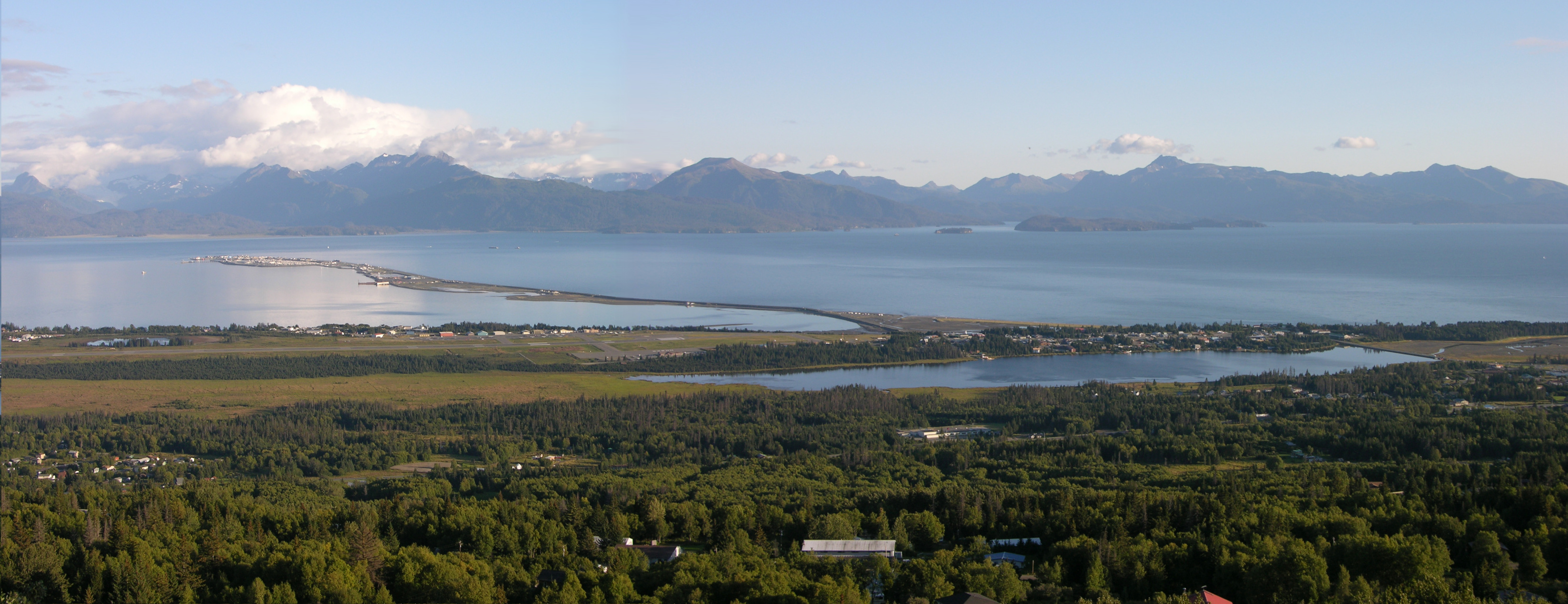 Picture of Homer, Alaska showing the Homer Spit. NOTE: This image is a panorama of the Homer Spit in Homer, Alaskaen consisting of multiple frames that were merged in software. As a result, this image necessarily underwent some form of digital manipulation. These manipulations may include blending, blurring, cloning, and color and perspective adjustments. As a result of these adjustments, the image content may be slightly different than reality at the points where multiple images were combined. This manipulation is often required due to lens, perspective, and parallax distortions.